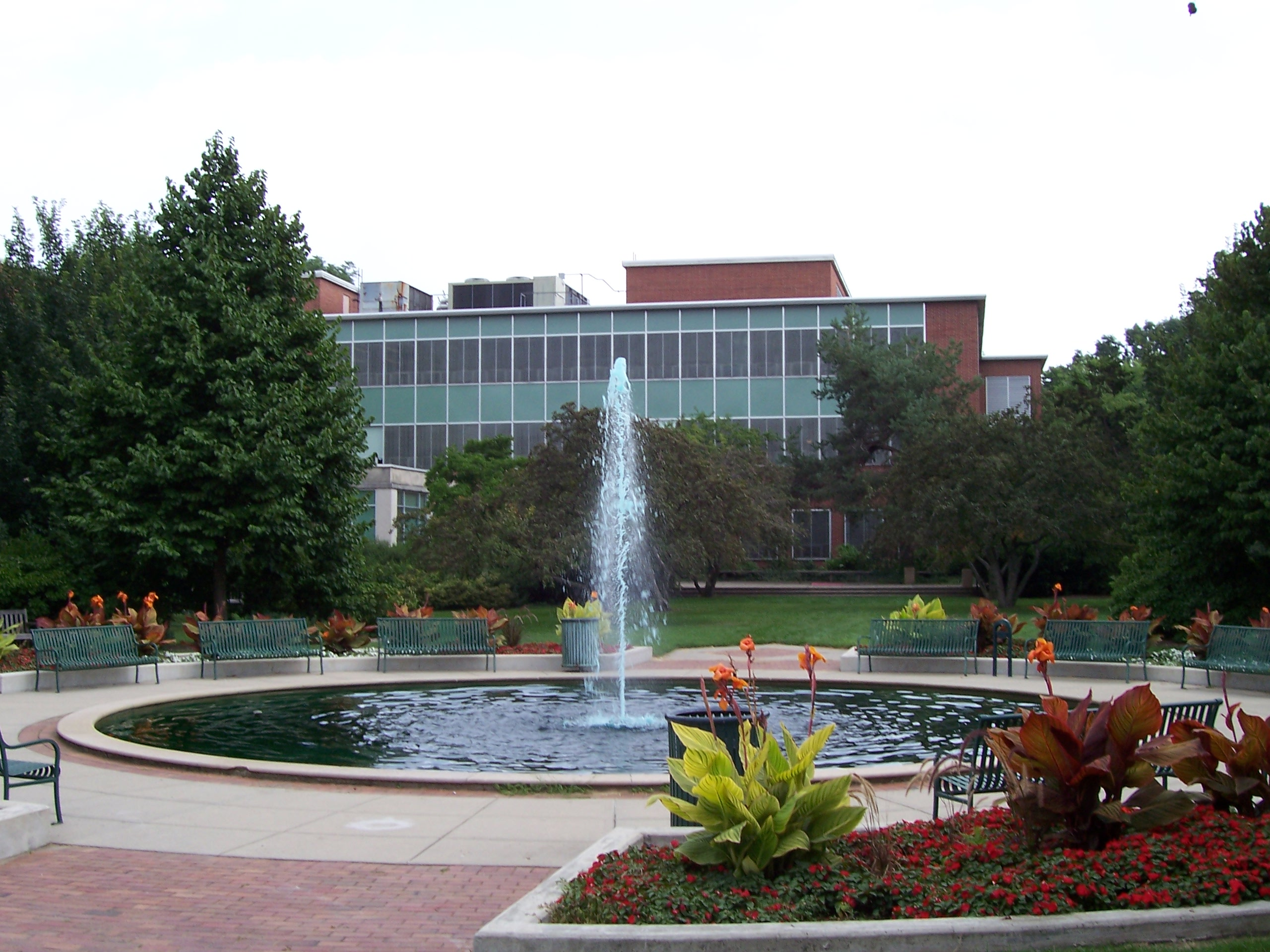 The Student Services buildings is one of the few International Style buildings on the north part of Michigan State University's campus. It is located next to the Old Horticulture Gardens and the old fountain.